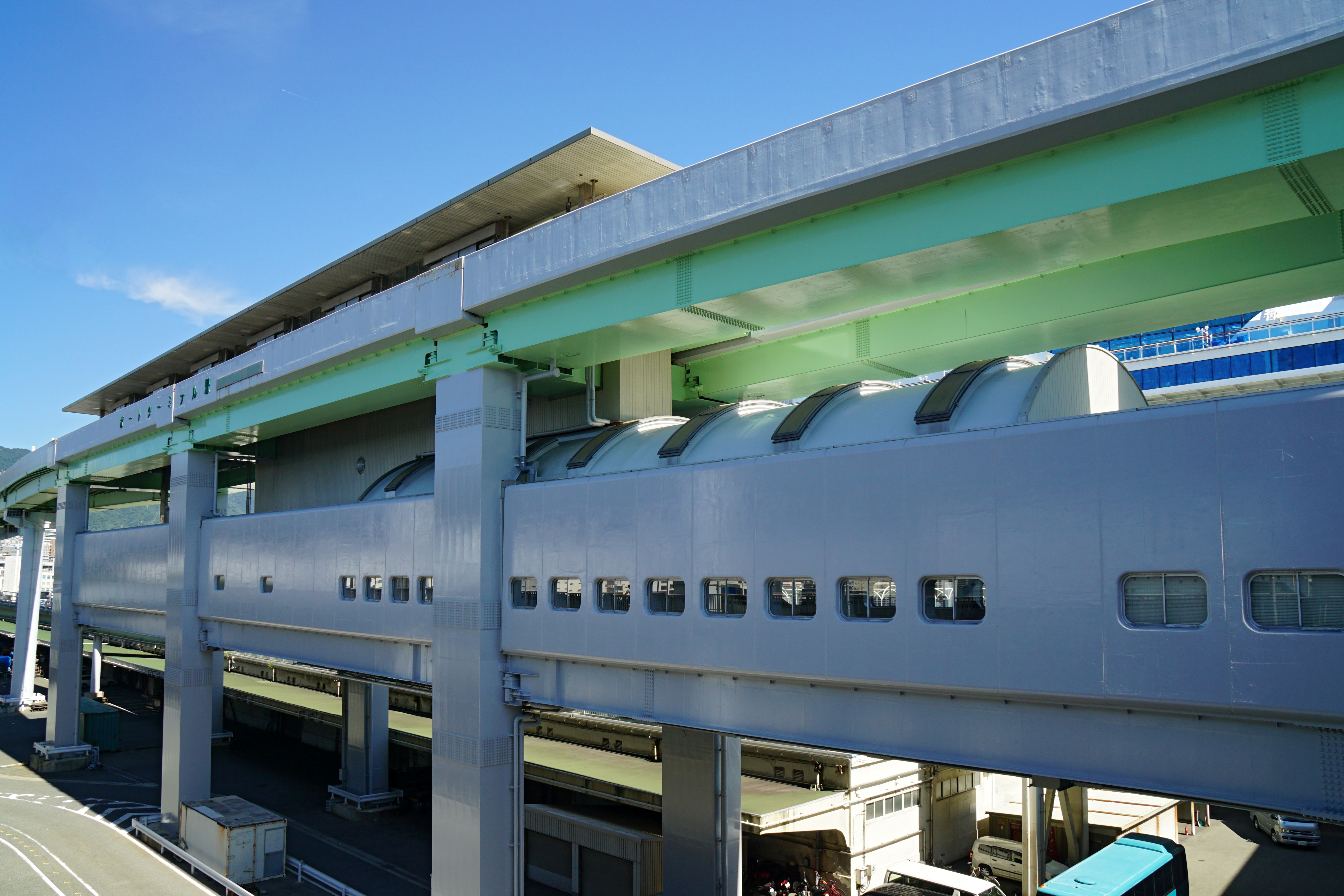 Port Terminal Station in Kobe Hyogo prefecture, Japan.